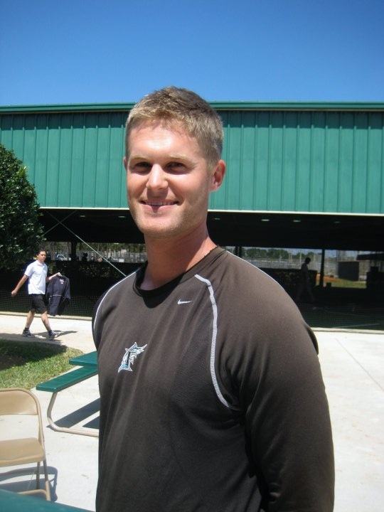 Chris Leroux at Marlins training camp 2010 (Picture by Ian Bussieres, Le Soleil, Quebec City)